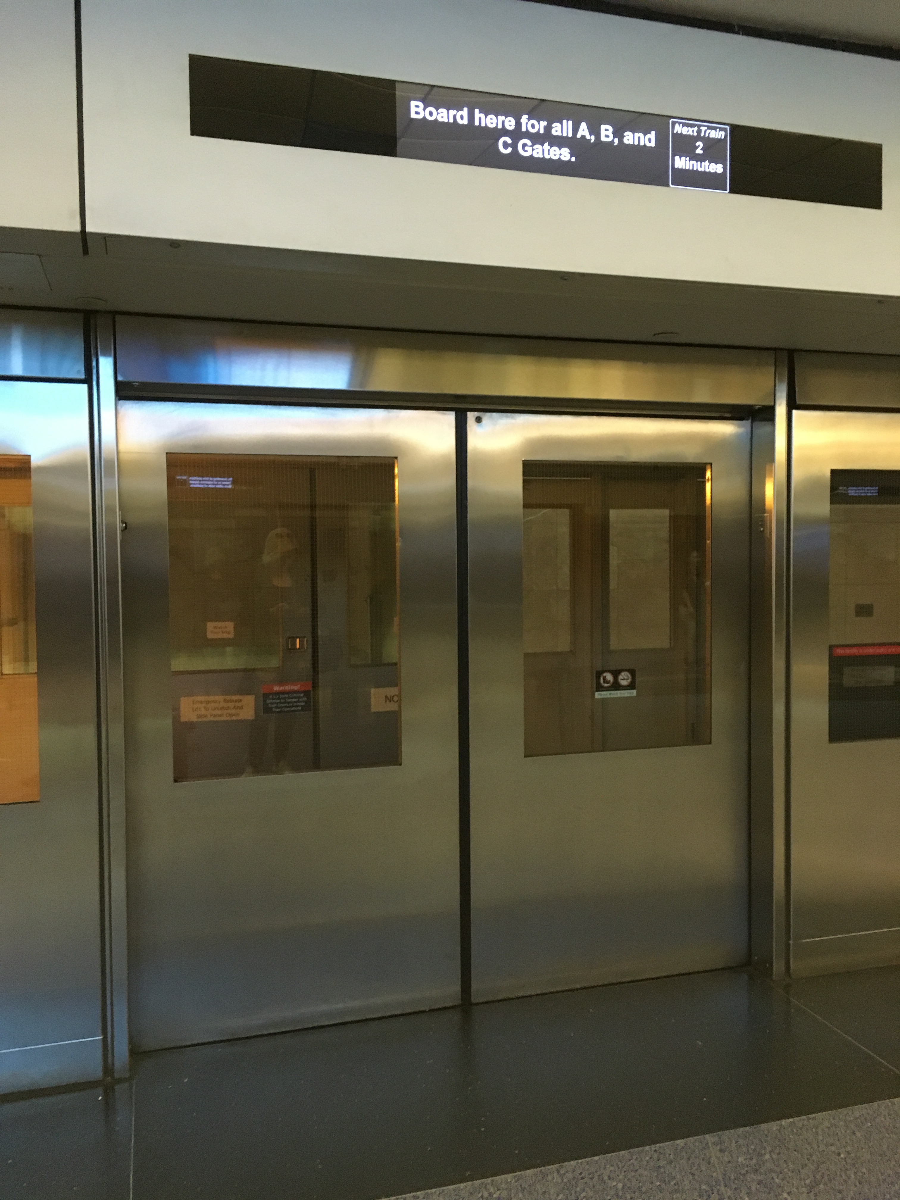 Terminal platform at Denver Airport